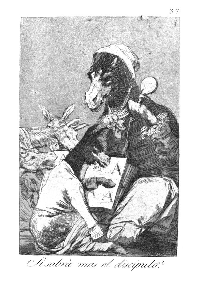 Los Caprichos is a set of 80 aquatint prints created by Francisco Goya for release in 1799.